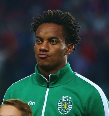 André Carrillo